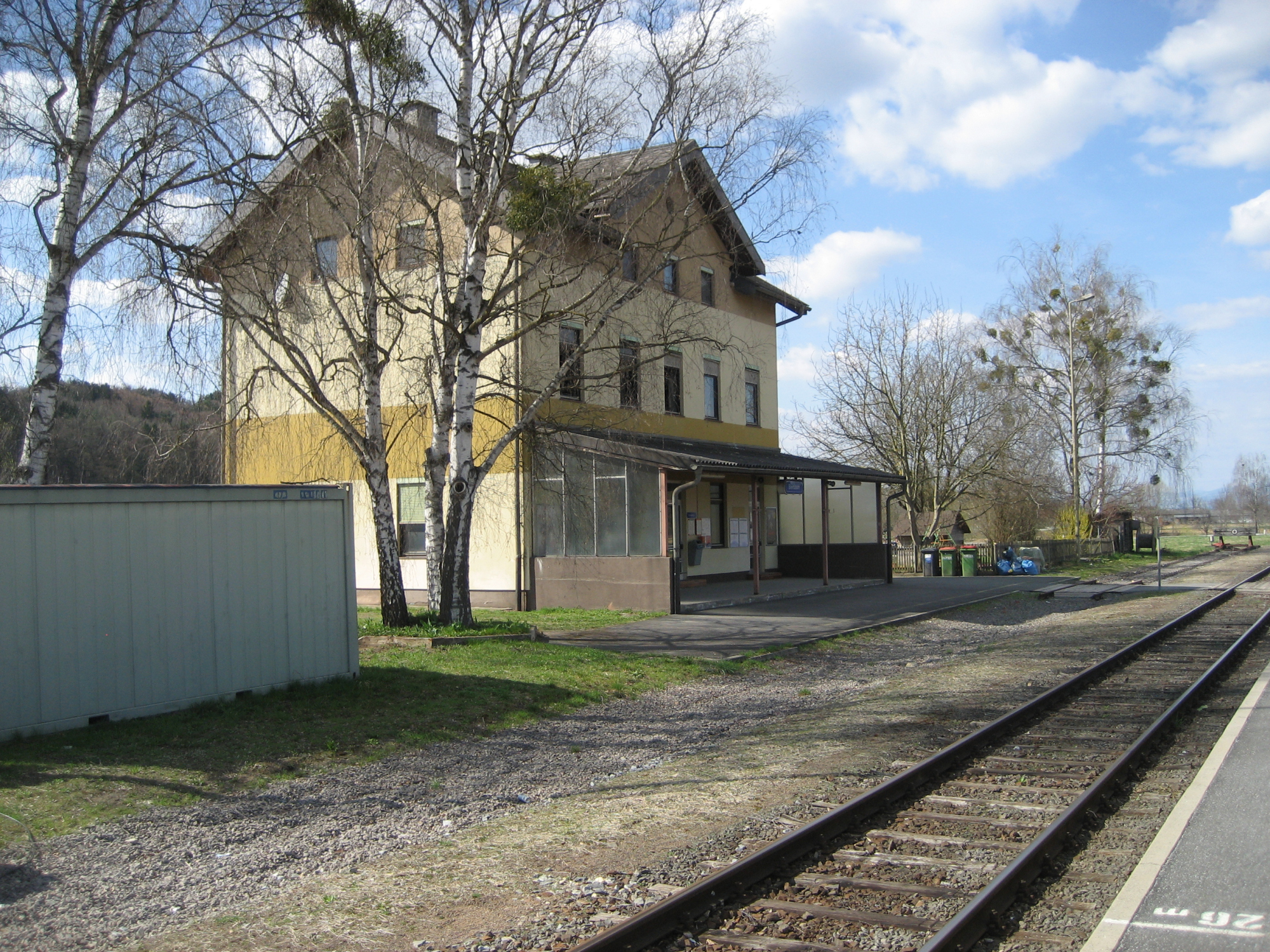 train station Bierbaum in Styria